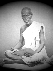 Jain monk and reformer from India.